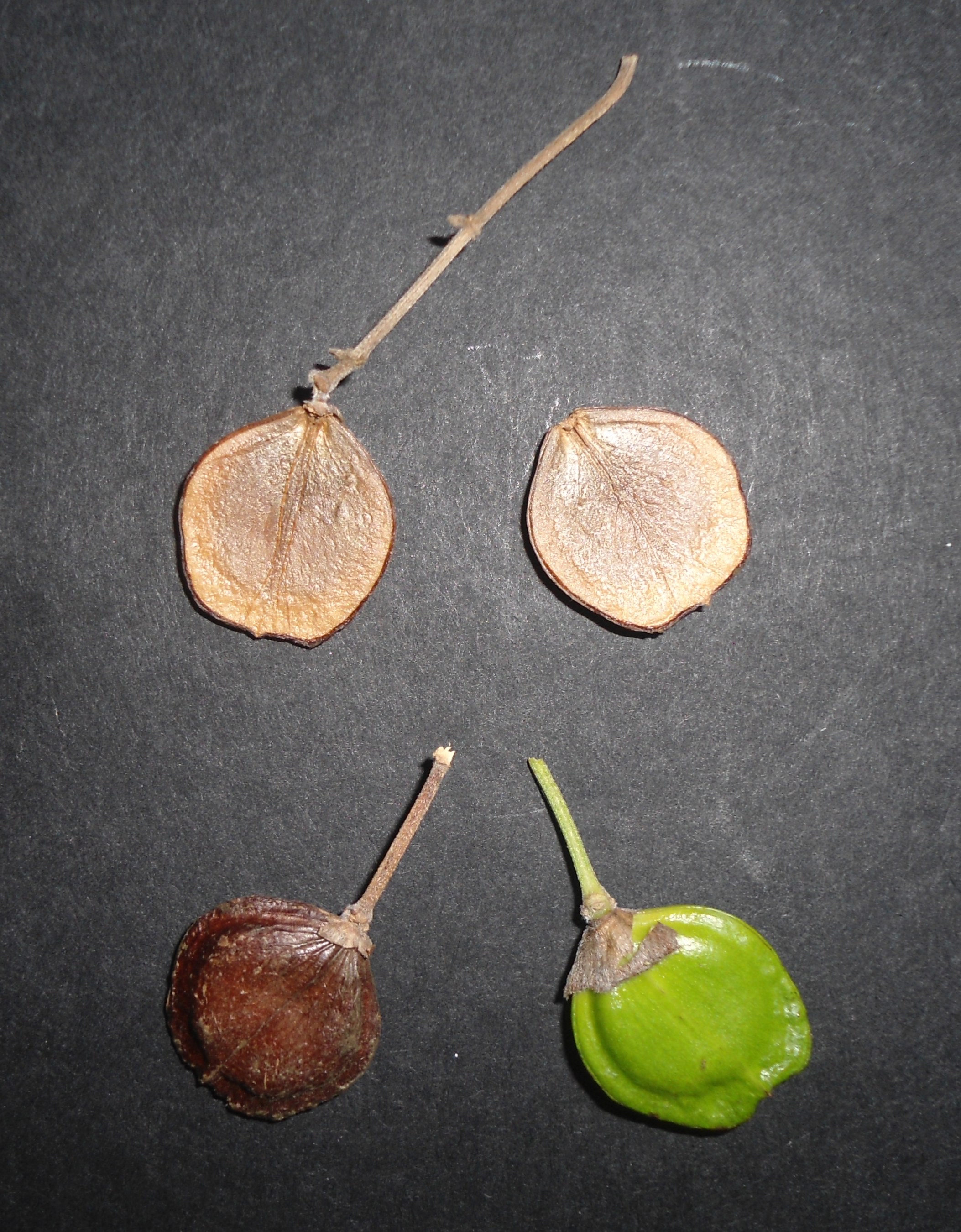 Nyctanthes arbor-tristis Fruit cross section and Dry and Raw fruits at Madhurawada in Viskhapatnam